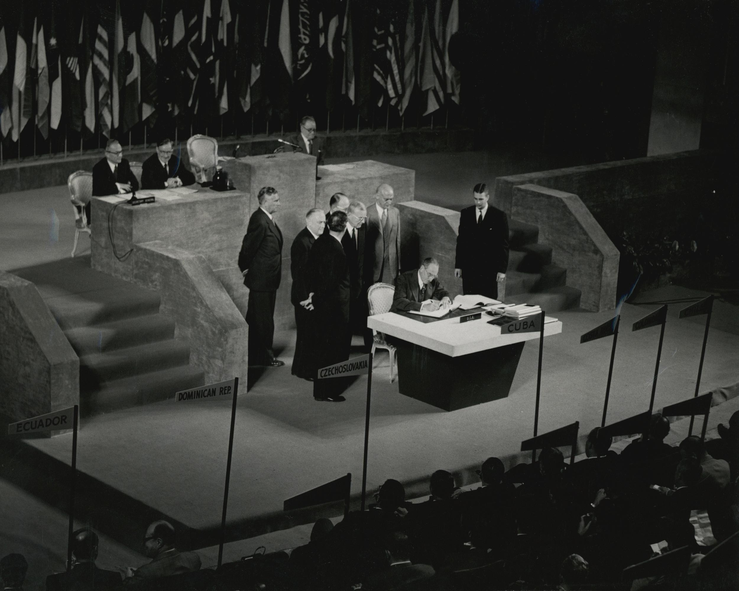 U.S. Secretary of State Dean Acheson signing the Treaty of Peace with Japan, September 8, 1951